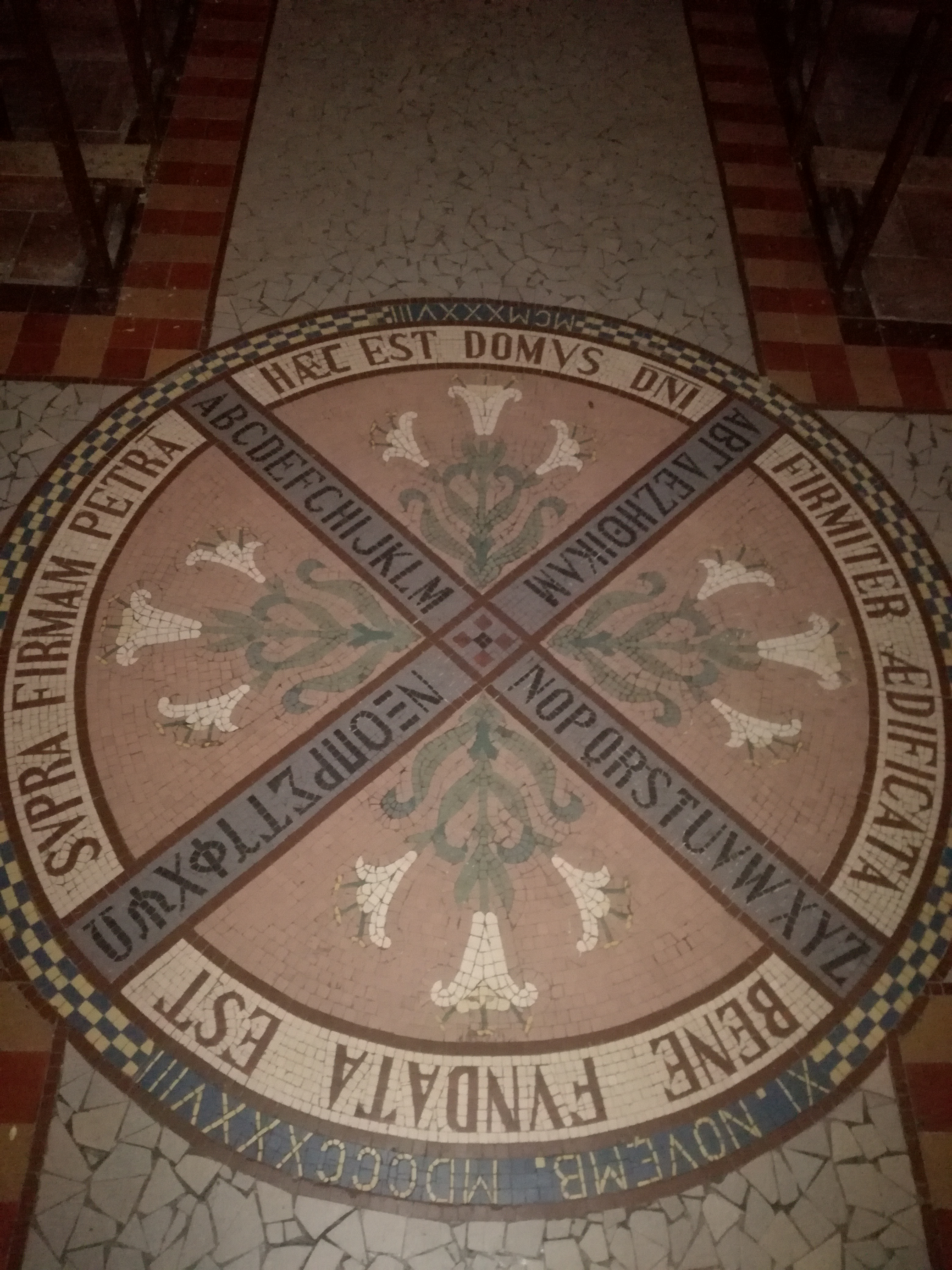 Mosaic in the central aisle of Notre-Dame de la Daurade, Toulouse: Latin and Greek alphabet in the form of a diagonal cross, reminiscent of the extraordinary form Latin rite of the dedication of a Church.